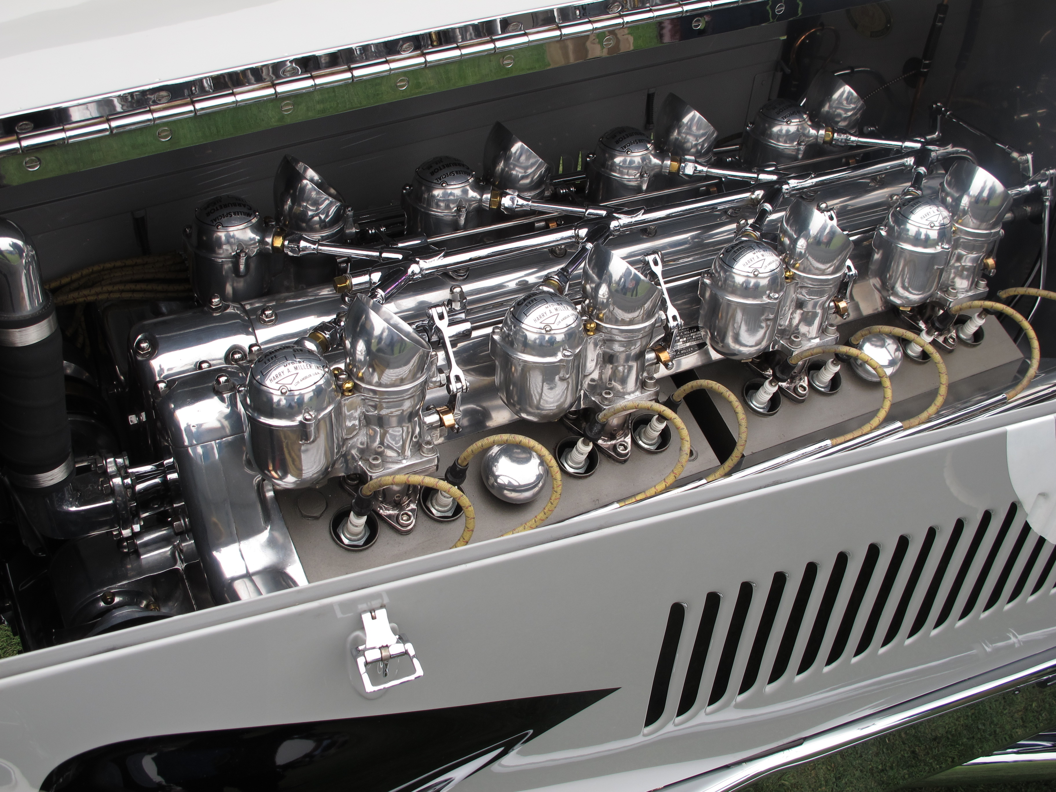 The Miller eight cylinder racing engine set a new standard for racing performance and was the inspiration for Ettore Bugatti's eight cylinder engine.